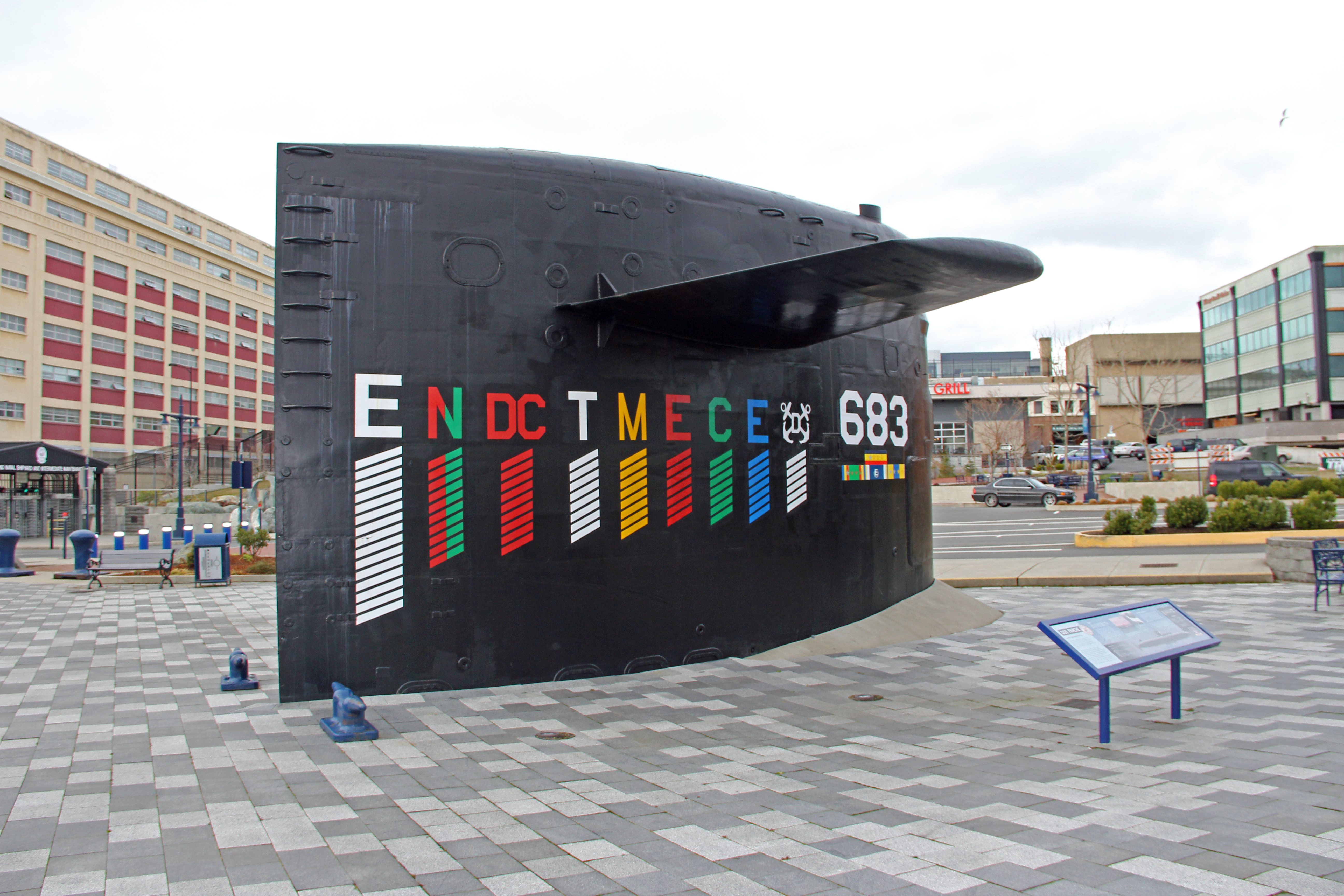 The USS Parche was the most decorated submarine in U.S. Navy history. Her sail is now on display outside the Puget Sound Navy Museum, on the right side of the Bremerton-Seattle ferry entry gate. All of her honors were earned during clandestine operations such as tapping Soviet undersea communication cables in the Barents sea.